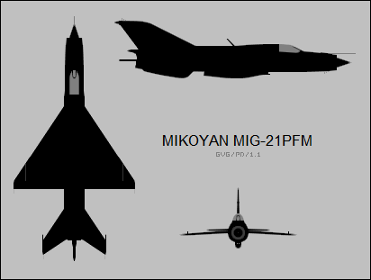 MiG-21PFM